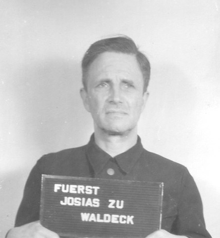 Josias, Hereditary Prince of Waldeck and Pyrmont, SS-Obergruppenführer and Higher SS and Police Leader of the SS-Oberabschnitt Fulda-Werra